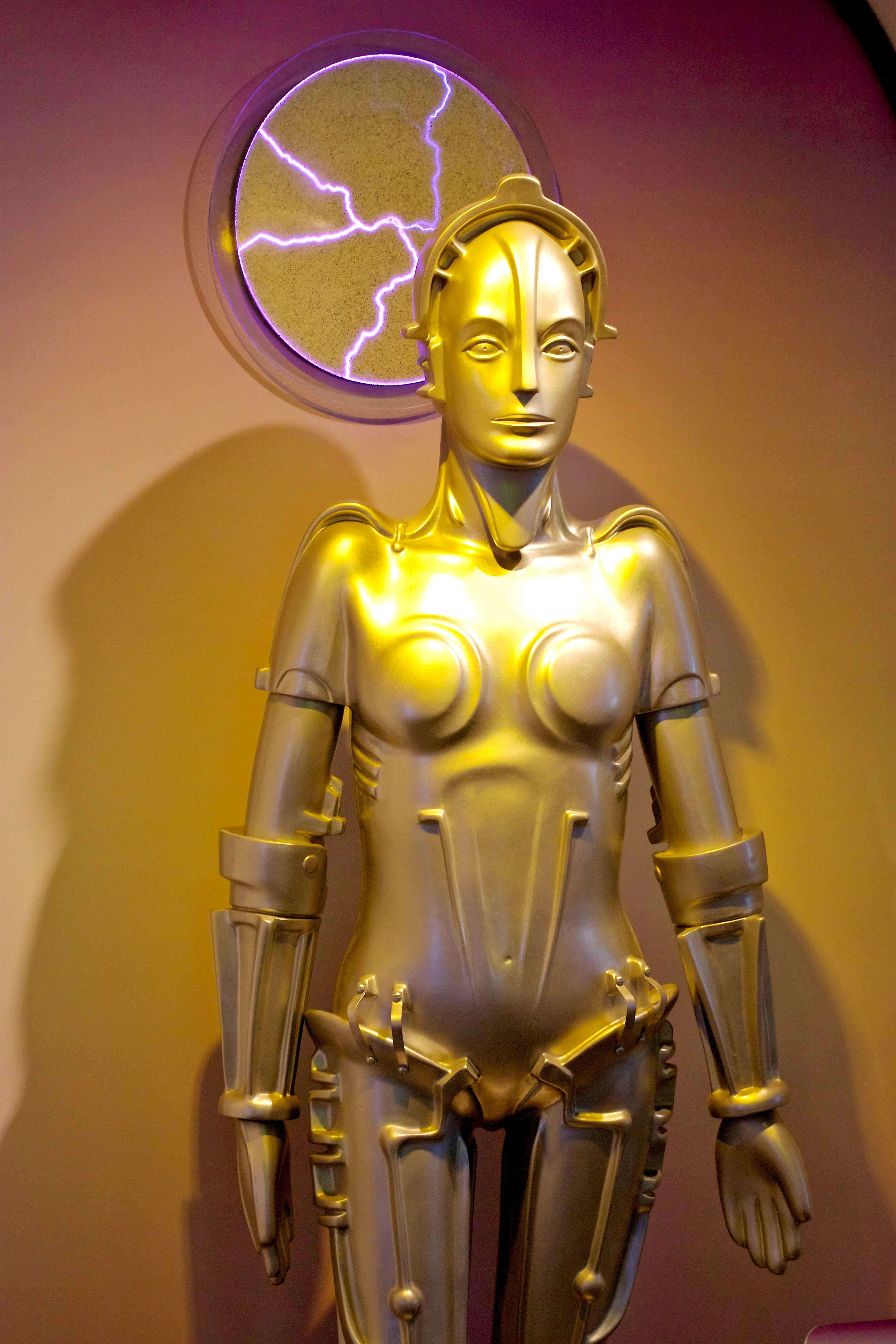 Replica of the character Maria from Metropolis. This image is freely available under the Creative Commons Attribution-ShareAlike license.